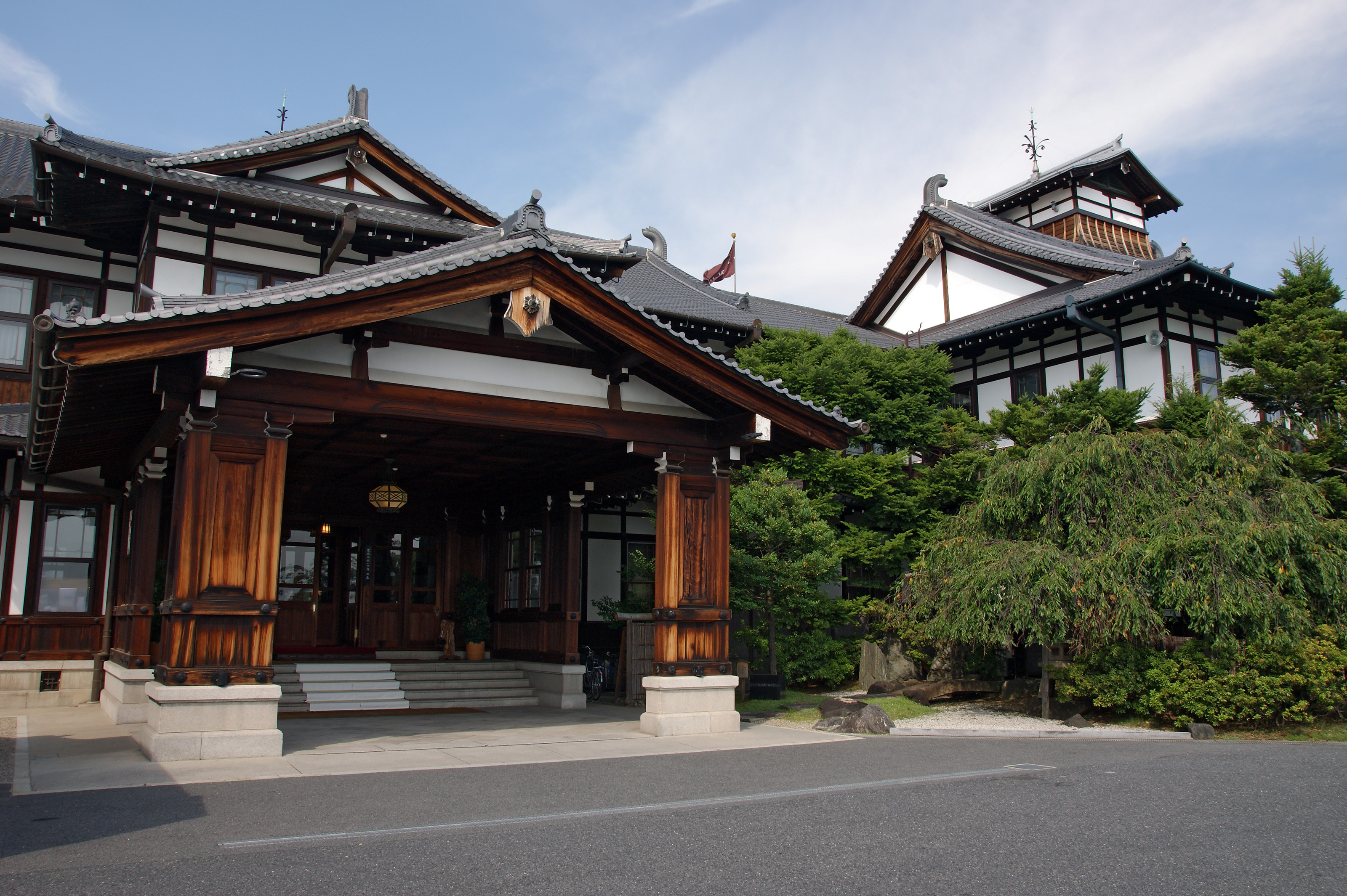 Nara Hotel in Nara, Nara prefecture, Japan